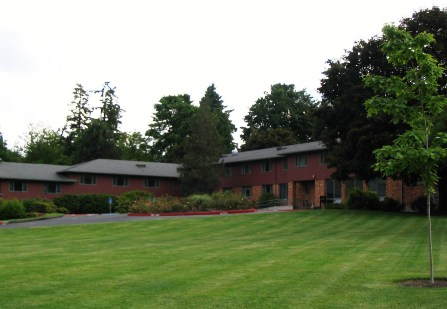 Stewart Residence Hall at at Lewis & Clark College in Portland, Oregon, USA.